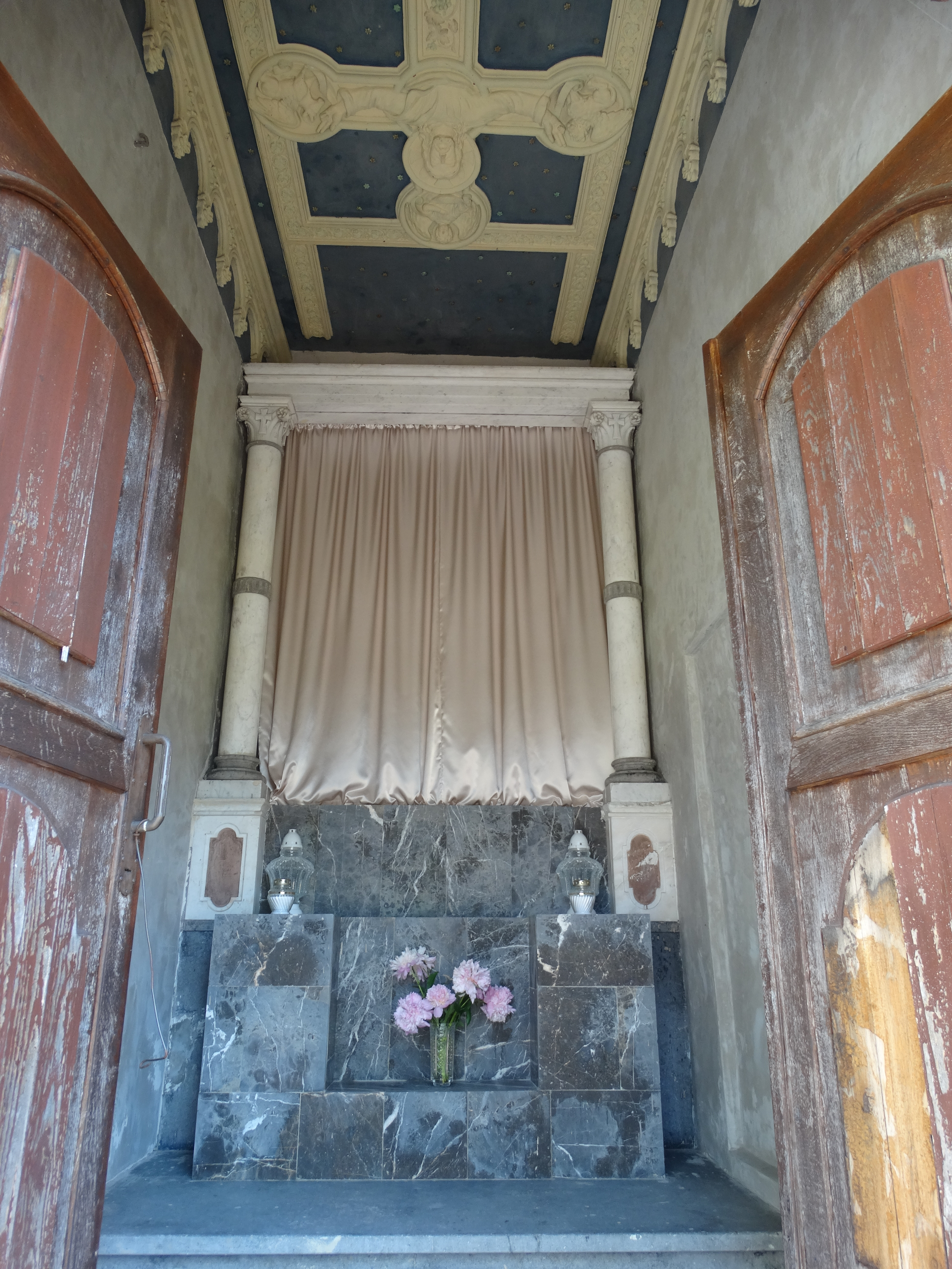 Ogiński family chapel in Rietavas, Lithuania